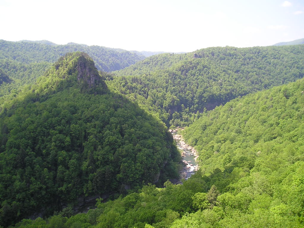 Author: Reggie Tiller Source: Taken by my digital camera Summary Author: Reggie Tiller Source: Taken by my digital camera